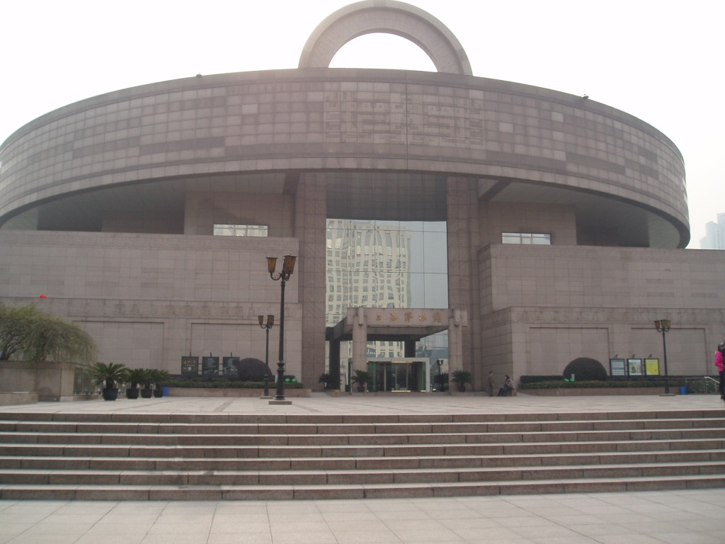 Shanghai Museum, in Peoples Square, Shanghai, China. Image manipulation software (Gimp 2) was used to "clone out" people from steps on left-hand side of image.